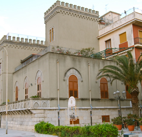 This is the home where Francesco Durante lived. It can be found in "Piazza Durante", in Letojanni (Messina).